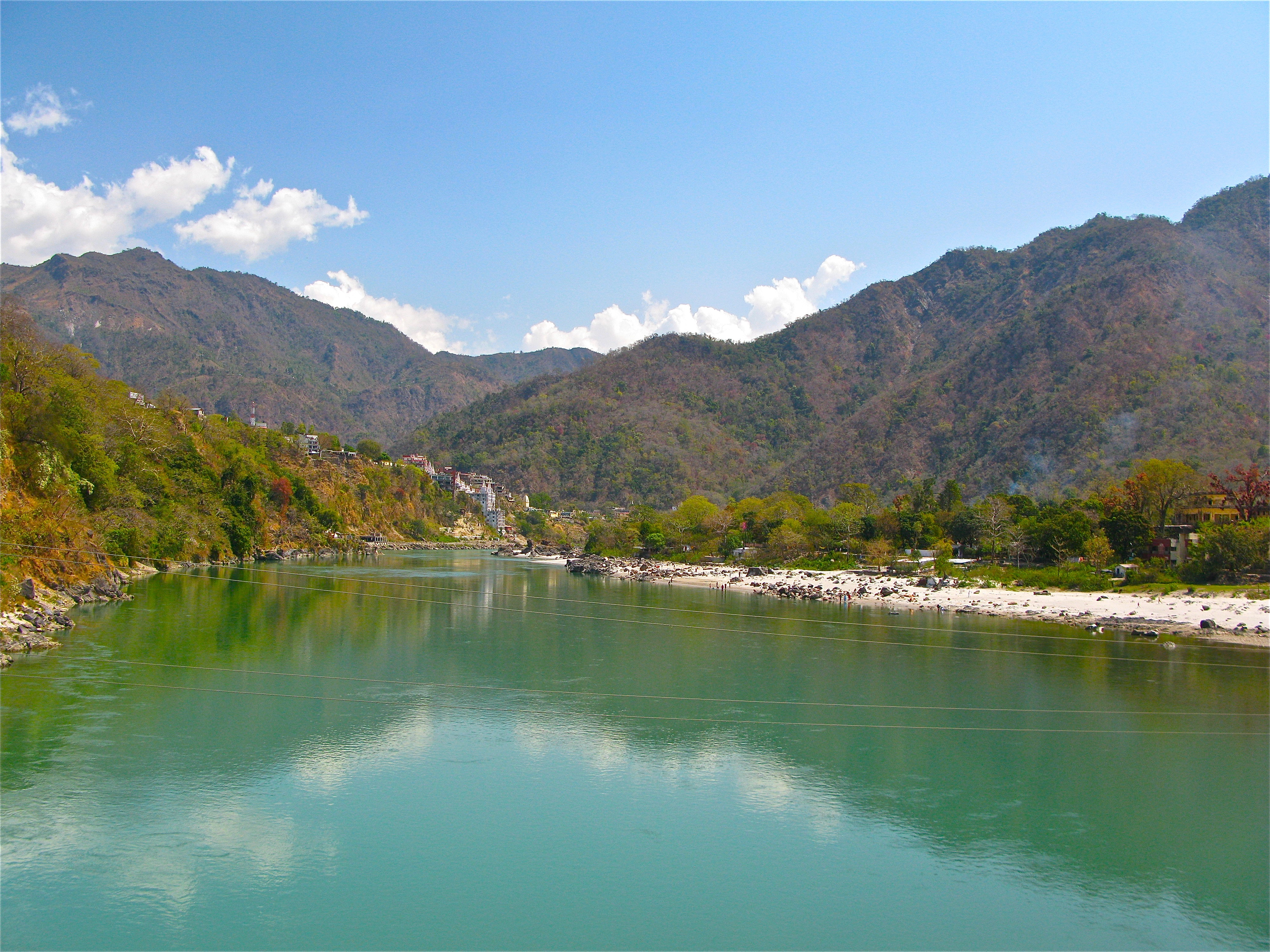 Ganges and the Shivalik ranges, near Rishikesh.